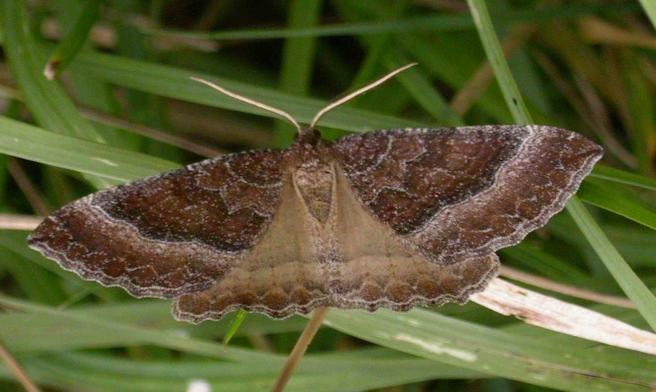 Mallow moth (Larentia clavaria) in wild, daytime